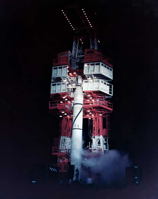 JUPITER C Missile RS-40, a modified REDSTONE, was successfully launched. Its nose cone was the first to be recovered from outer space. It also carried the first mail ever delivered over IRBM range.